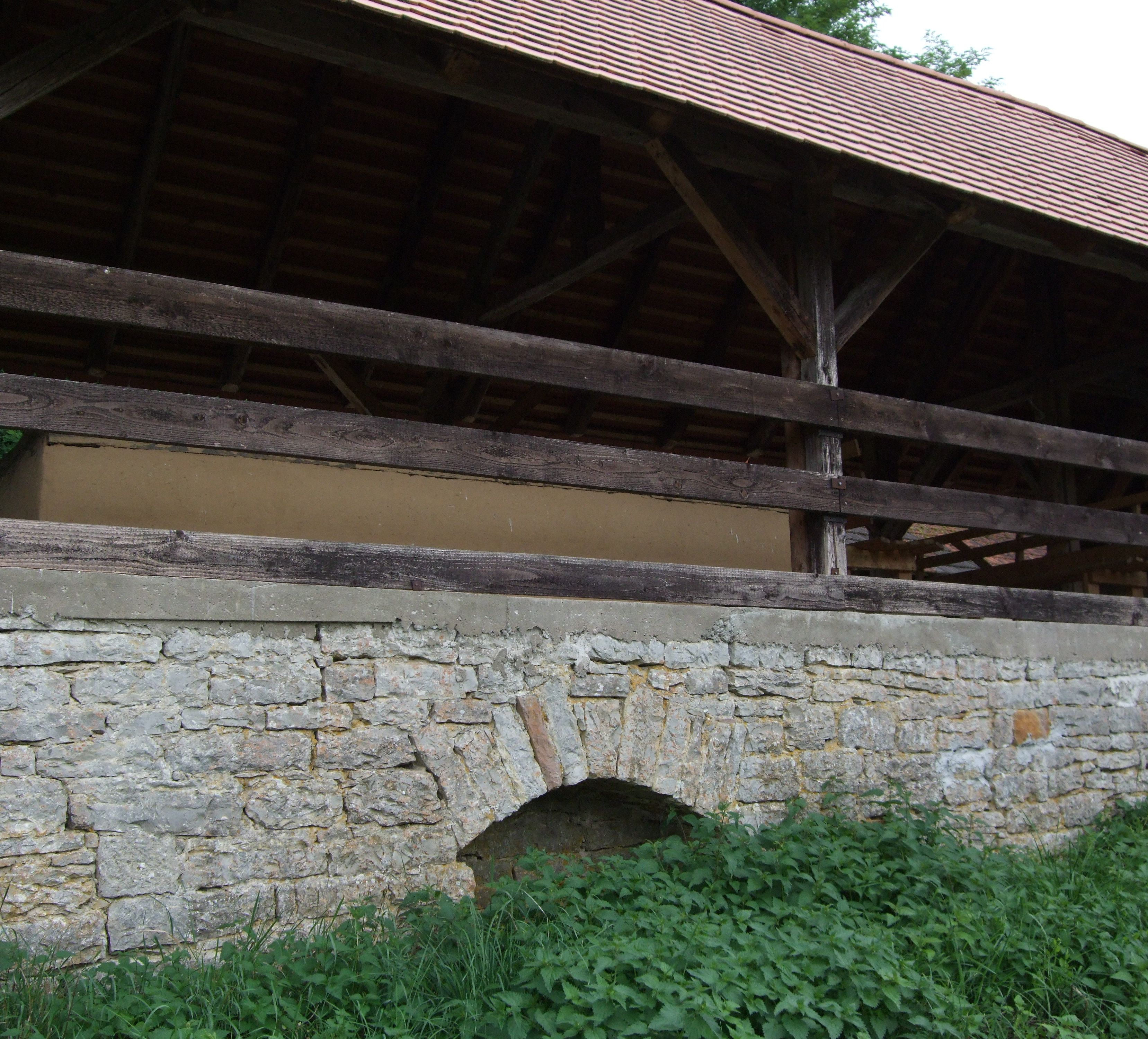 Vent of a drying kiln for drying unripe spelt grain. Sindolsheim, "Bauland", Baden-Württemberg, Germany